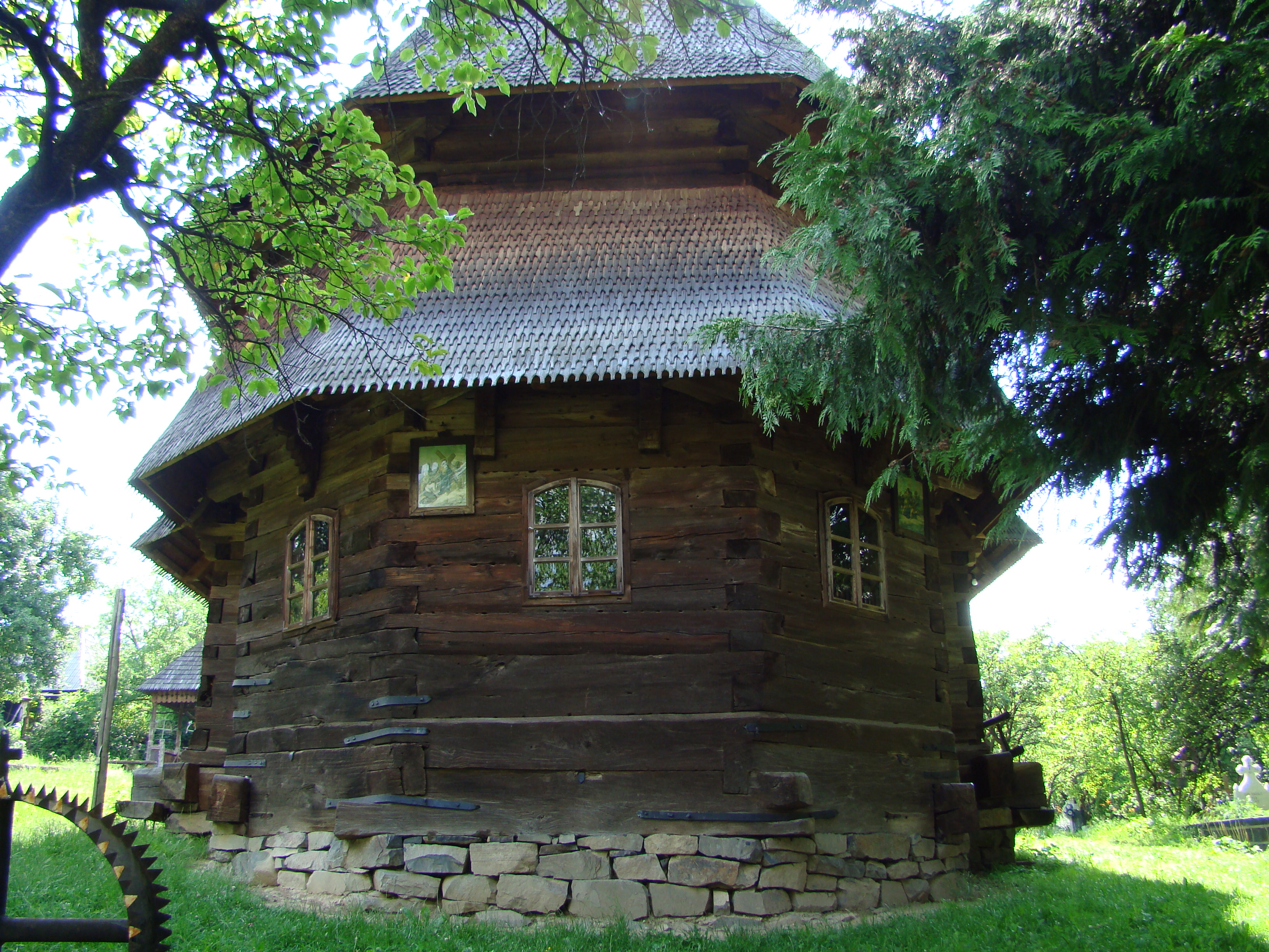 Wooden church in Budeşti Josani, Maramureş